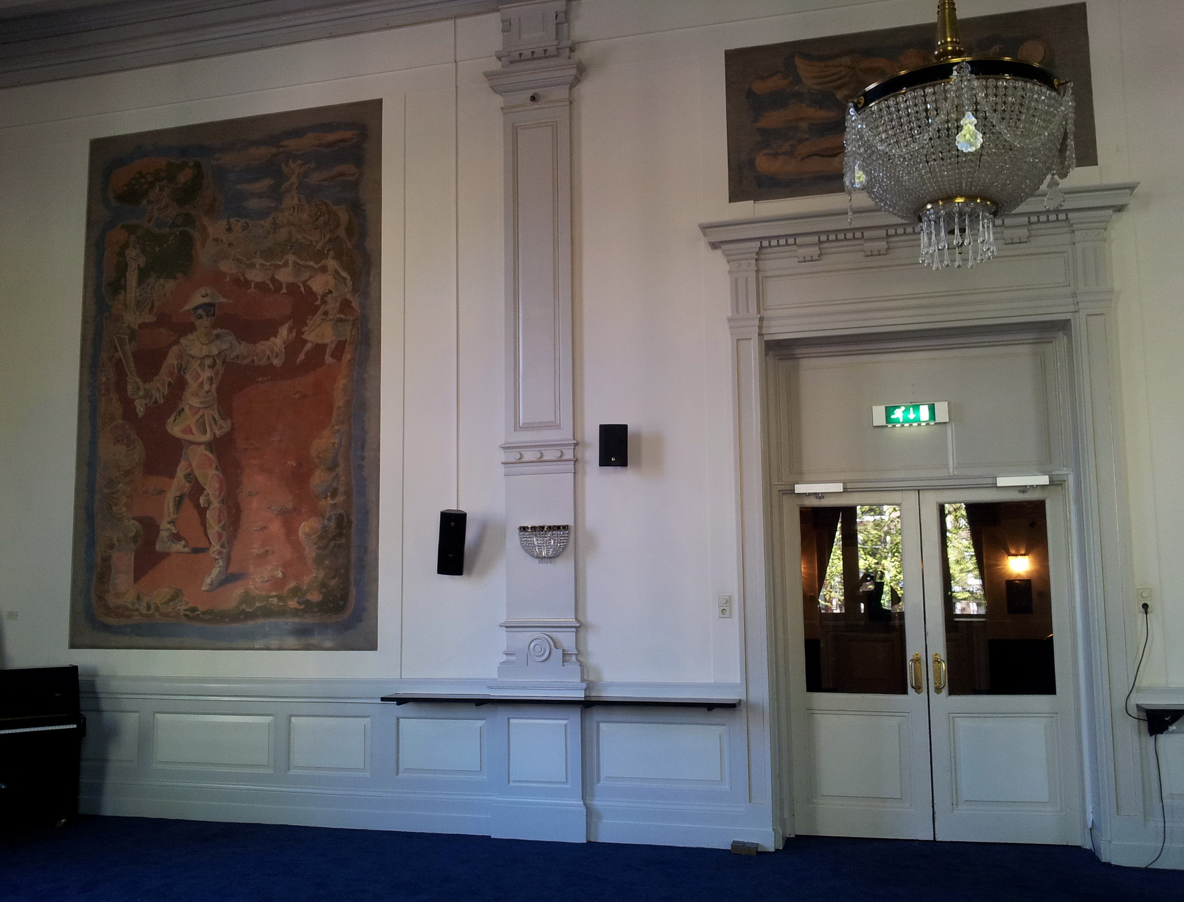 Amsterdam, the Netherlands. View of Pleinfoyer on the first floor of Stadsschouwburg, Amsterdam's municipal theatre on Leidseplein. The murals with figures from commedia dell’arte was painted by Gerard Hordijk in 1939.